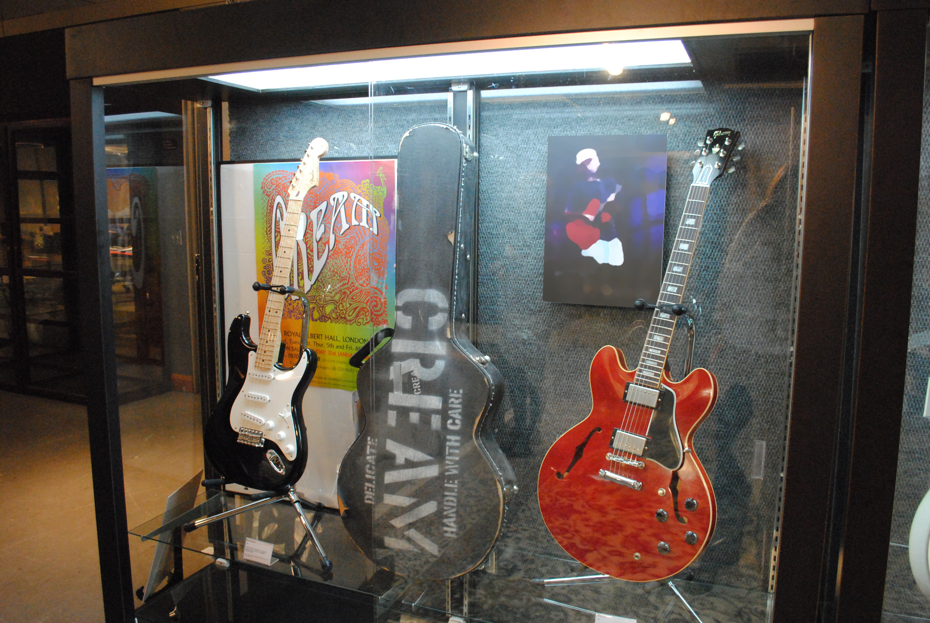 2005 Fender Stratocaster Eric Clapton Signature Model, Serial No. CN98950. 9 Mar 2011 13:00 EST New York, The Eric Clapton sale of Guitars and Amps in aid of the Crossroads Centre. Bonhams. "This guitar was built by Mark Kendrick of Fender Custom Shop as a spare black Stratocaster to be used by Clapton during the phenomenally successful Cream Reunion concerts at the Royal Albert Hall, London, 2 – 6 May 2005, and Madison Square Garden, New York, 24 – 26 October 2005. It features very pronounced birds-eye maple neck and has no string retainer due to the use of staggered tuners. " A 2005 Gibson ES-335 Crossroads Model Prototype, Serial No. Prototype 3. 9 Mar 2011 13:00 EST New York, The Eric Clapton sale of Guitars and Amps in aid of the Crossroads Centre. Bonhams.